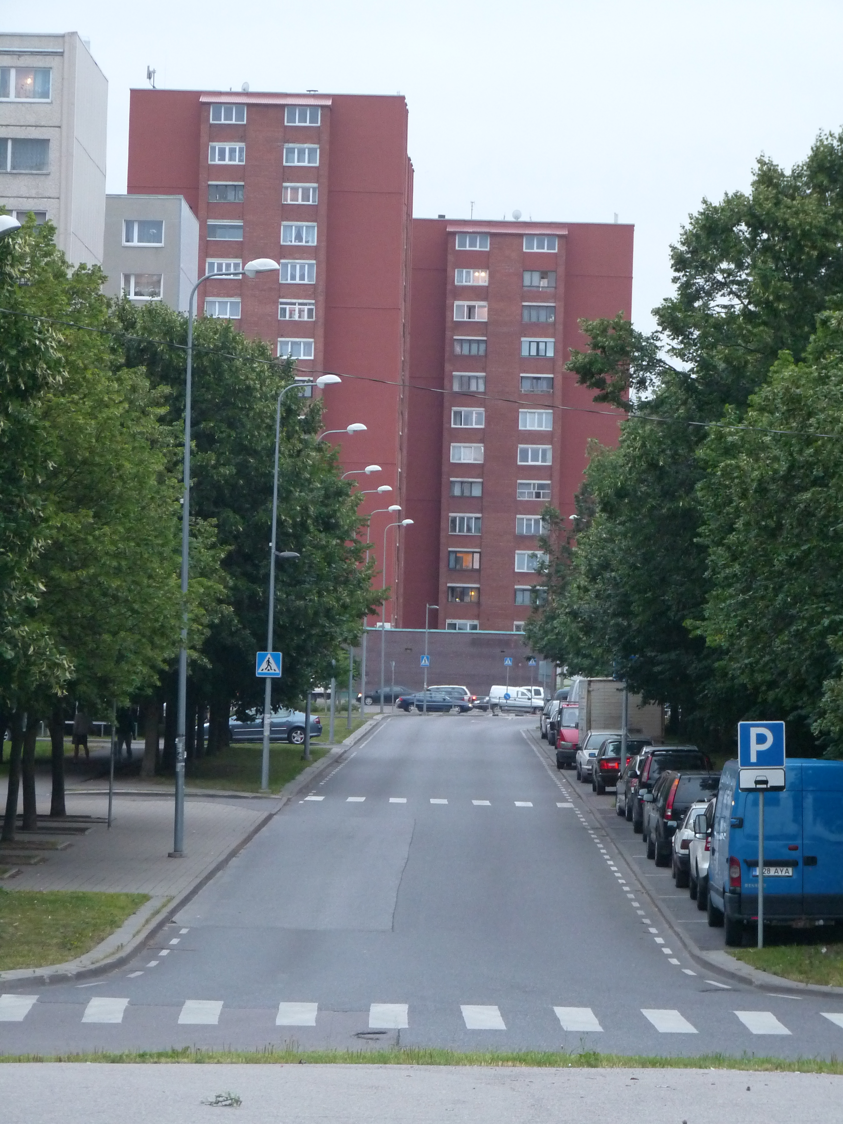 Pae street in Tallinn, Estonia